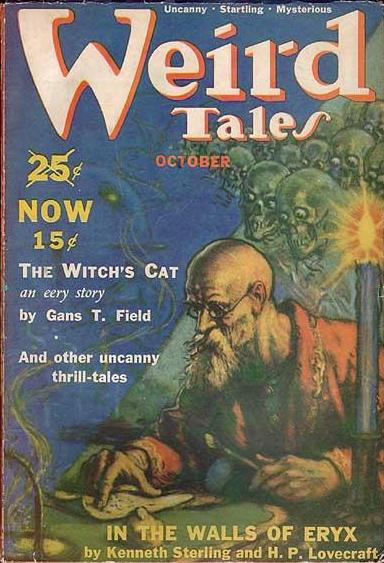 Cover of the pulp magazine Weird Tales (October 1939, vol. 34, no. 4) featuring In the Walls of Eryx by Kenneth Sterling and H. P. Lovecraft. Cover art by Harold S. Delay. Published by Weird Tales, Inc.